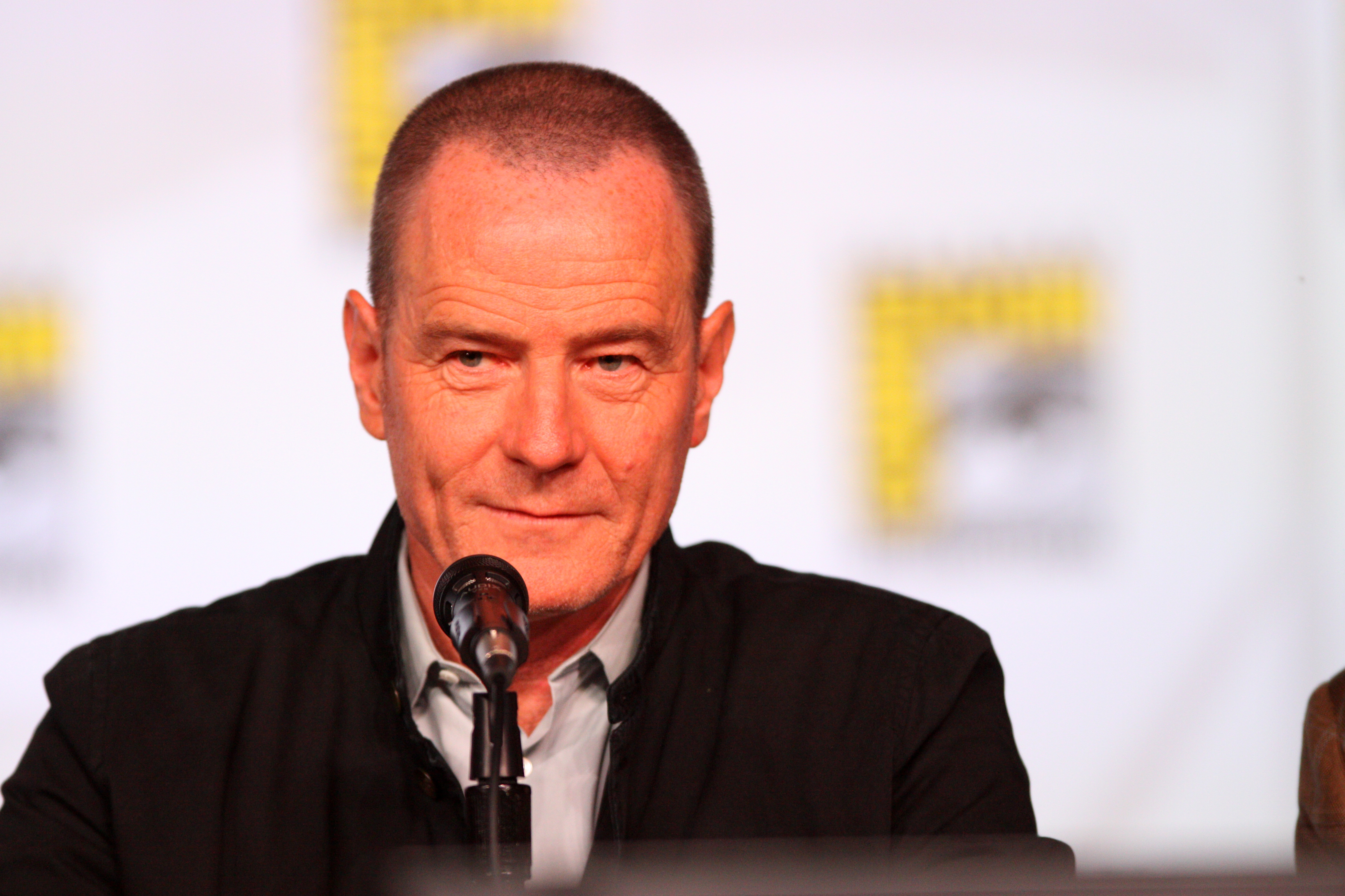 Bryan Cranston speaking at the 2012 San Diego Comic-Con International in San Diego, California.